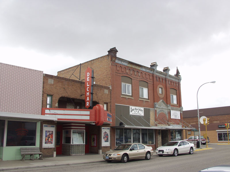 The Delchar Theater (left) and First National Bank (right) in Mayville, North Dakota. Both buildings are listed on the National Register of Historic Places.